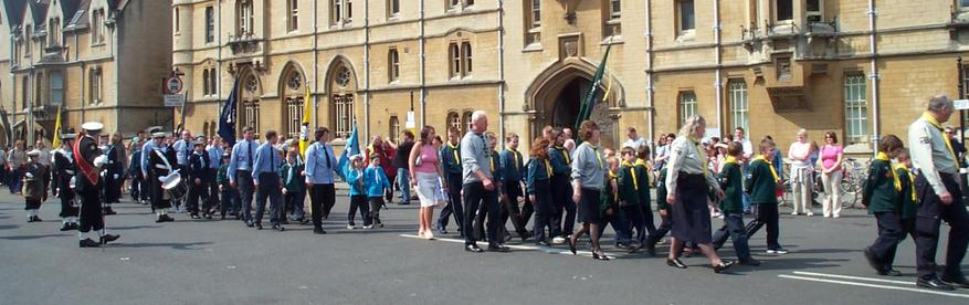 from en Wikipedia a scout march in front of Balliol College, Oxford, 2004-04-25. Copyright © Kaihsu Tai.